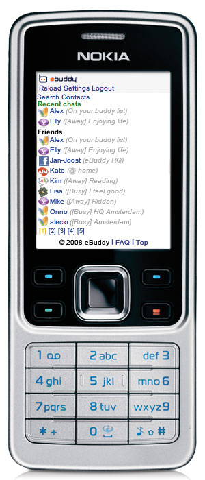 eBuddy Lite Messenger